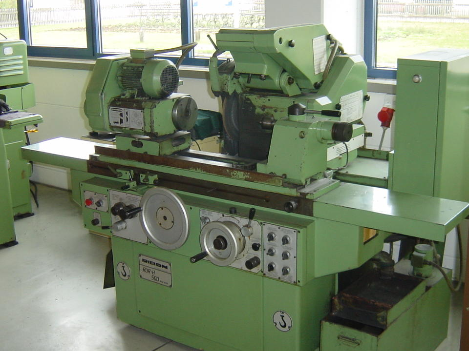 Cylindrical grinding machine Photo taken by Volker Schaurich (DieAlraune), 2003